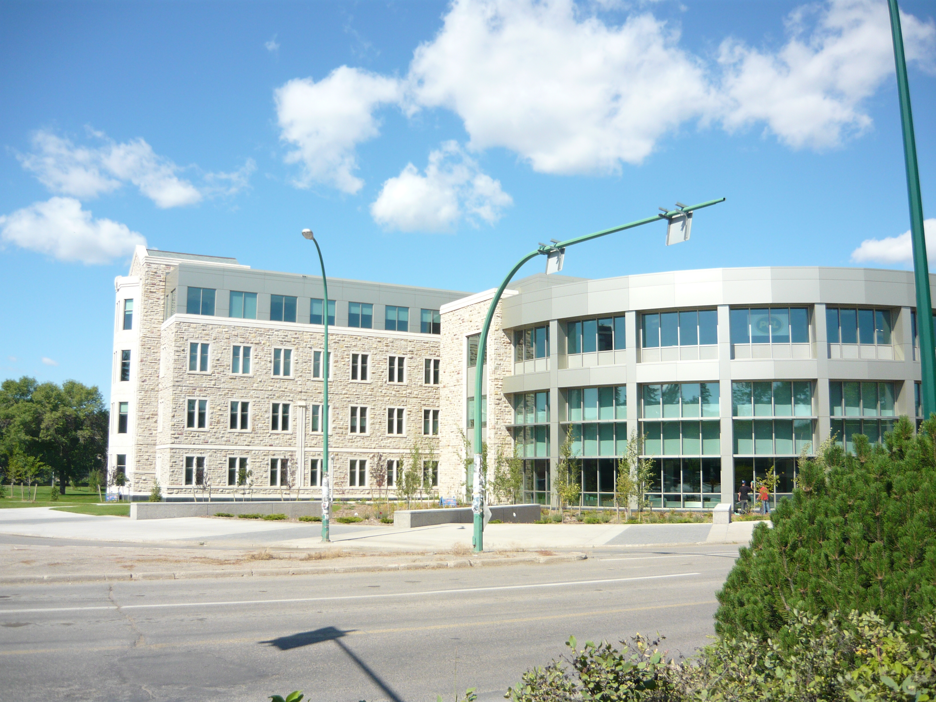 Health Sciences Building E Wing, Intersection of College Drive and Wiggins Road, University of Saskatchewan, Saskatoon, Saskatchewan, Canada. Opened 2013.